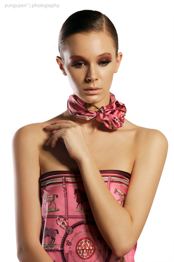 Model in Hermés scarves with equestrian theme, design „Couvertures et Tenues de Jour“ by Jacques Eudel, original collection 1974. Shot for Style Magazine, .